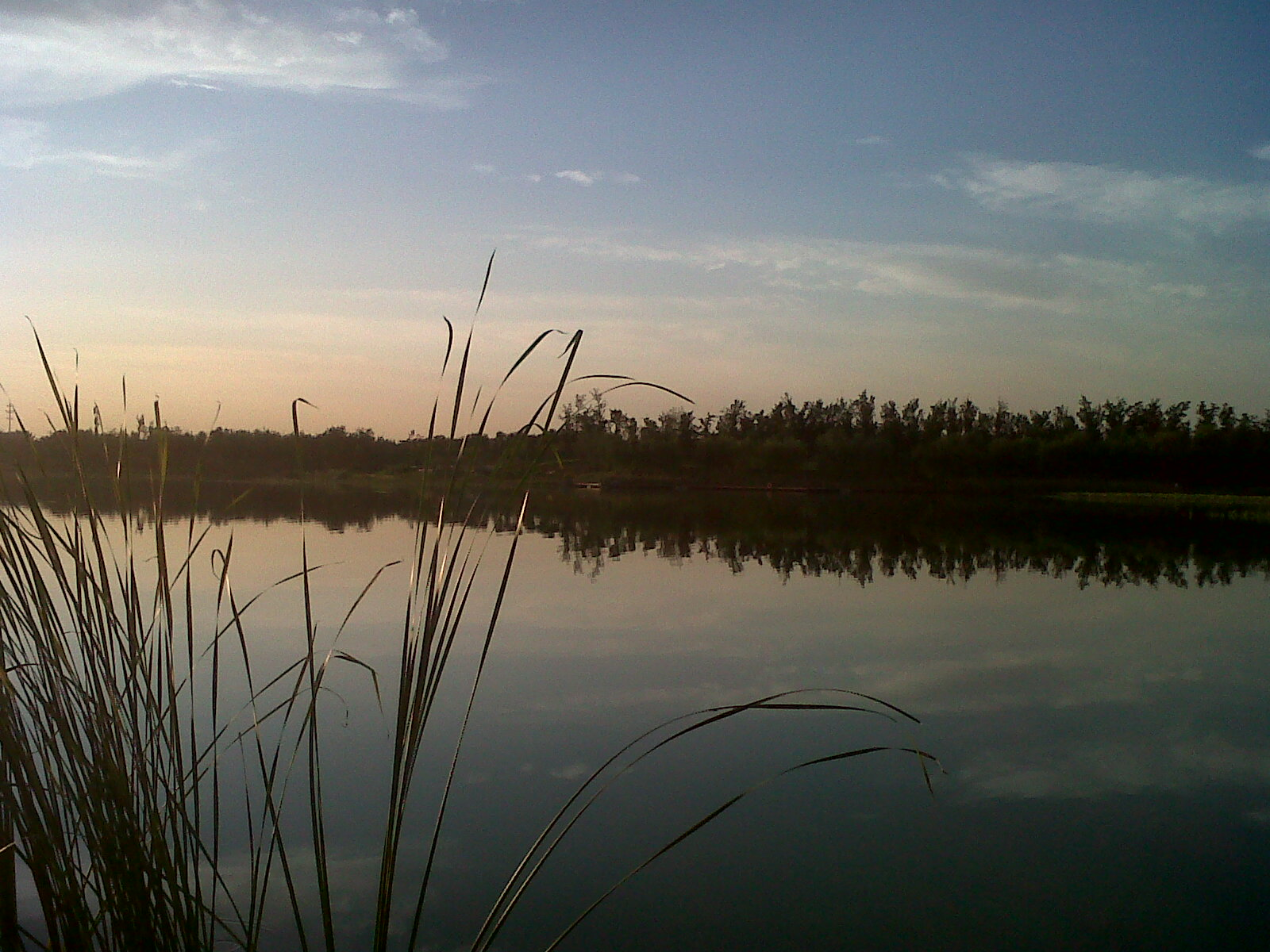 Nanhaizi Park Phase I - West Lake